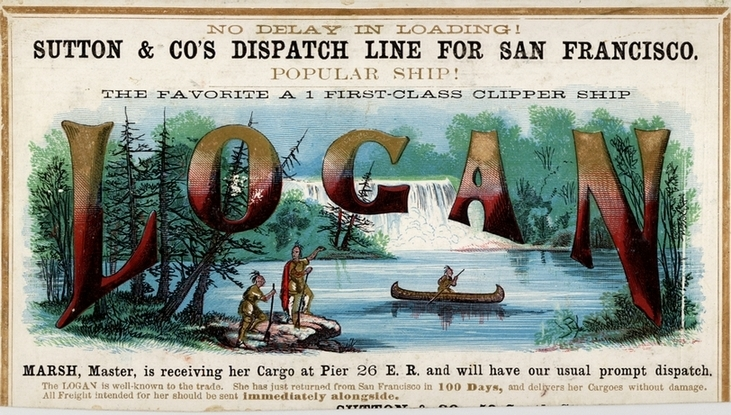 Sailing card for the clipper ship Logan.